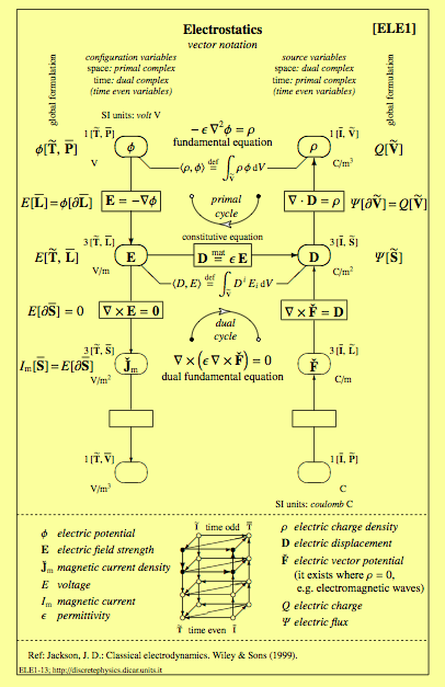 Tonti diagram for electrostatics